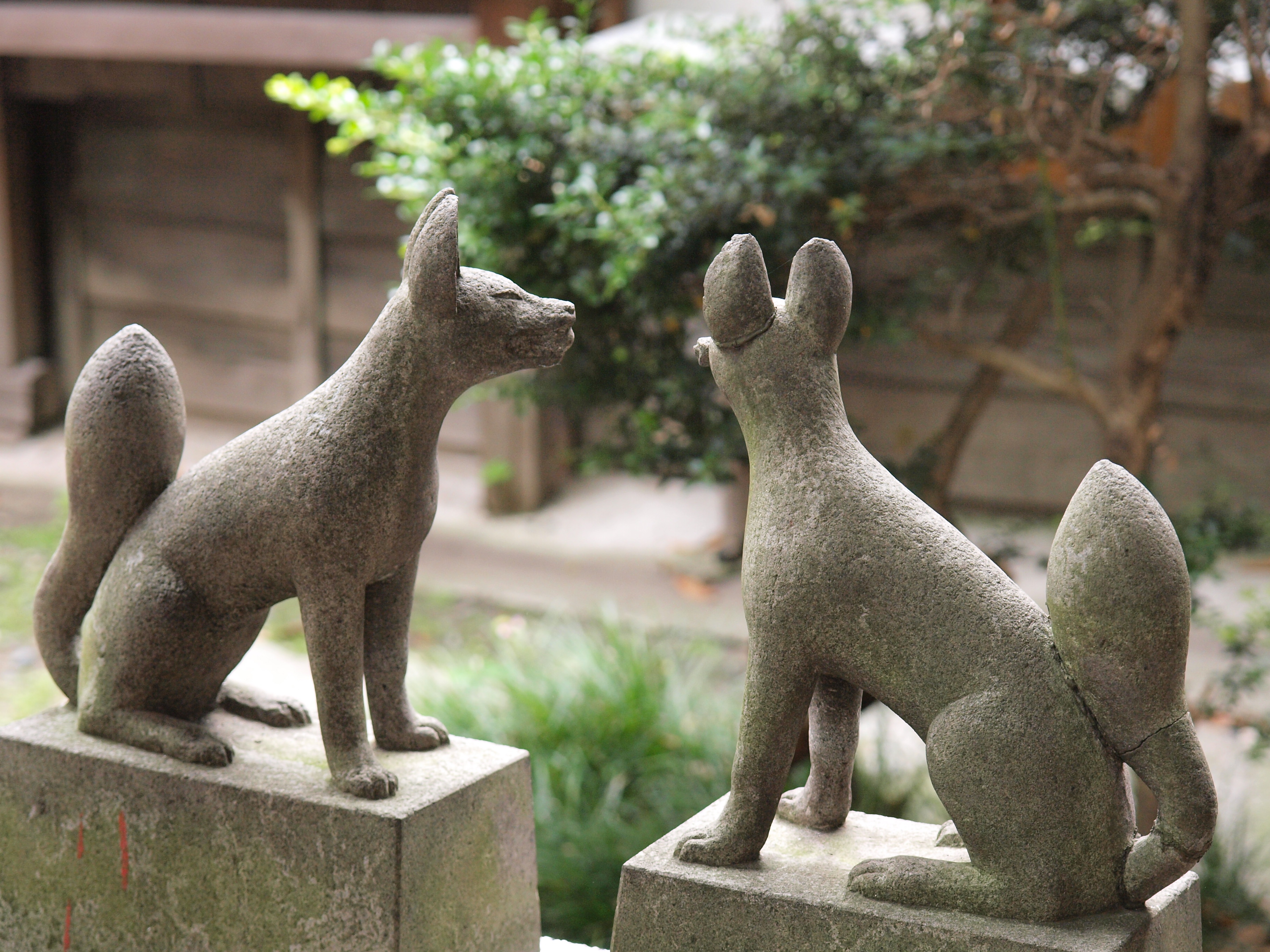 Gotō-inari-jinja in Kanda, Tokyo. See the map.